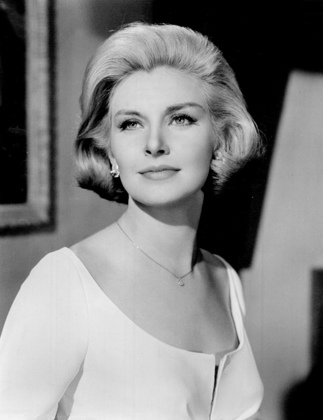 Photo of actress Joanne Woodward. The item has no copyright markings on it as can be seen in the links above.